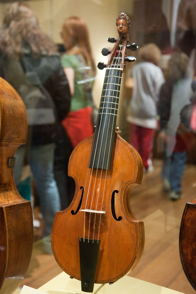 Pardessus de viole by Louis Guersan, Paris, 1762. Smithsonian Museum of American History.